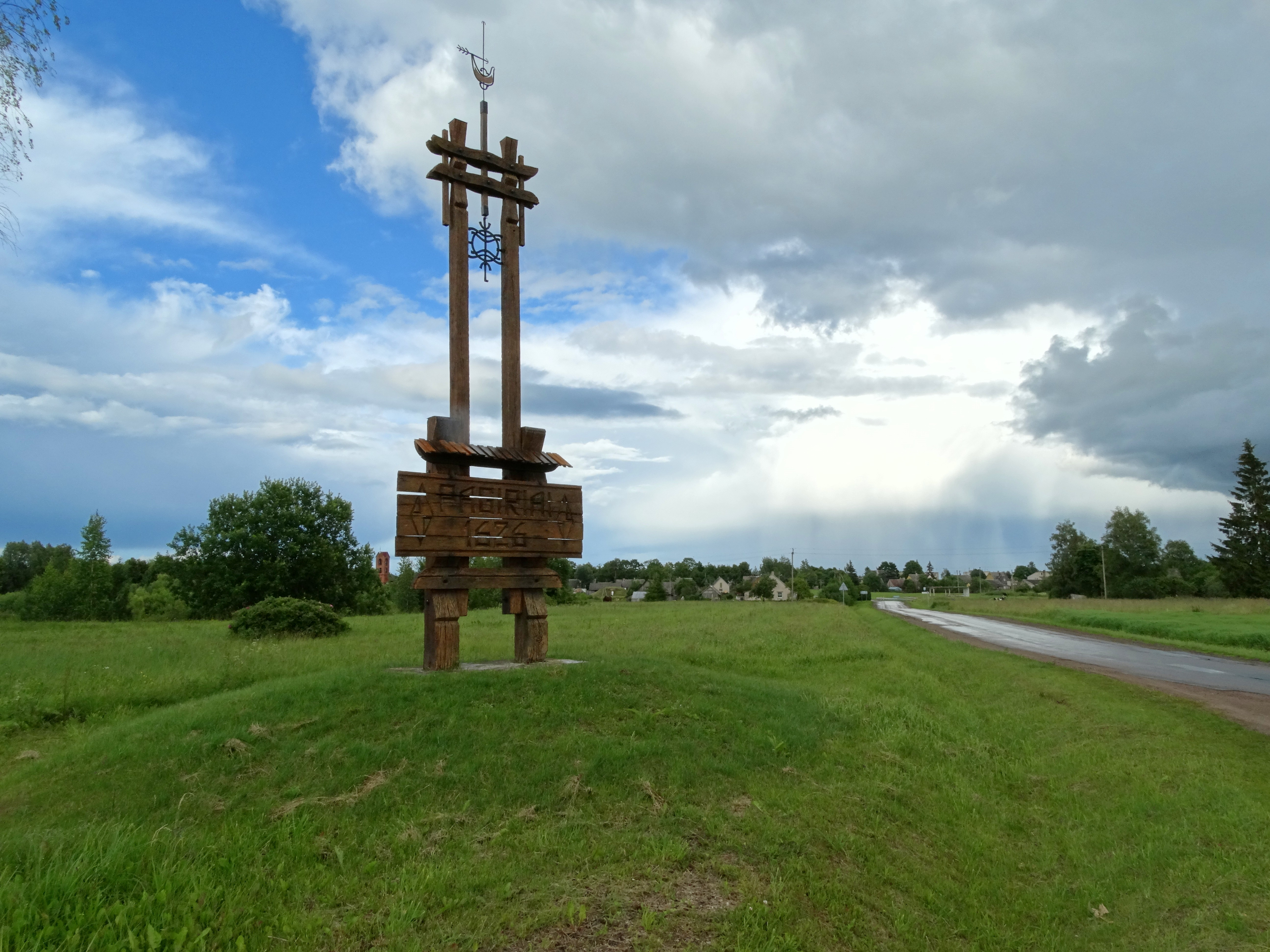 Pagiriai, Kėdainiai district, Lithuania